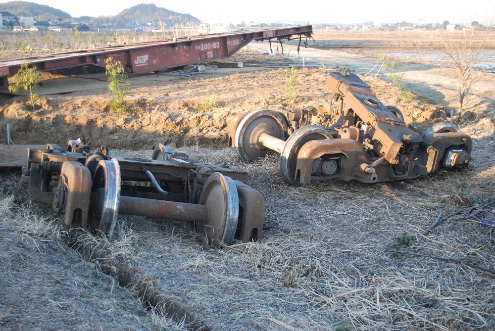 Derailed freight wagons near Namegawa Station on the Narita Line in Japan